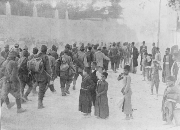 Photograph of Ottoman prisoners marching through Nablus September 1918